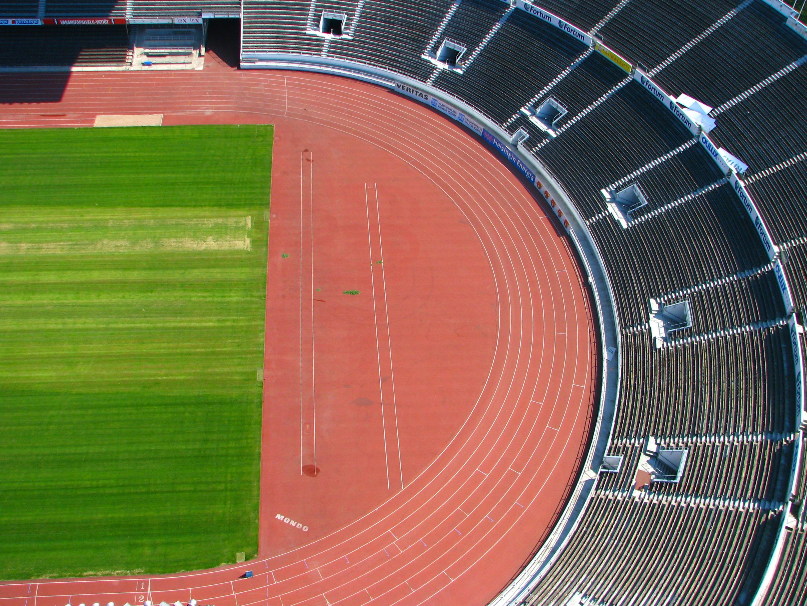 Helsinki Stadium track and field